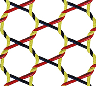 Bobbinet structure (David Eilbeck, TTE website)